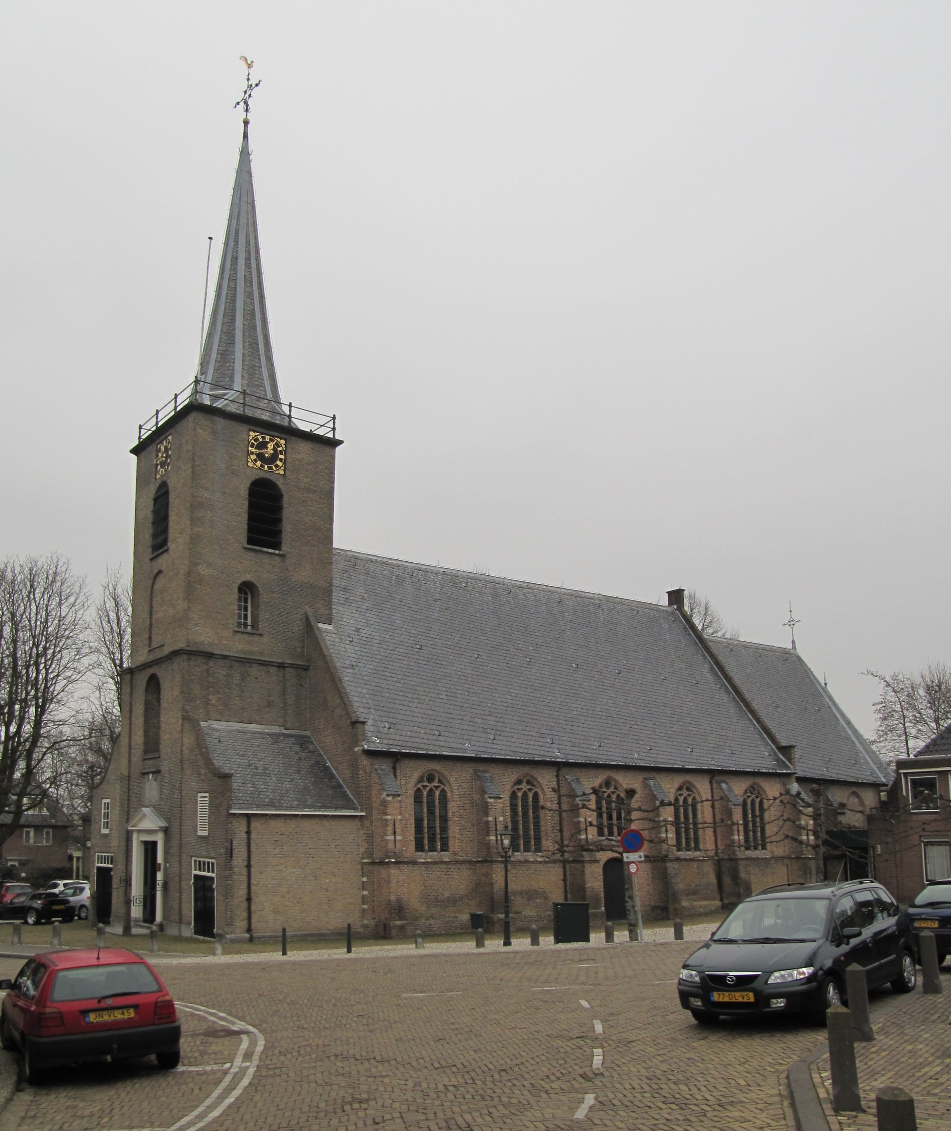 Dorpskerk, Capelle Aan Den IJssel, Netherlands.